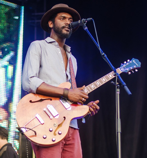 Gary Clark, Jr. performing at the North Coast Music Festival in Chicago in 2013